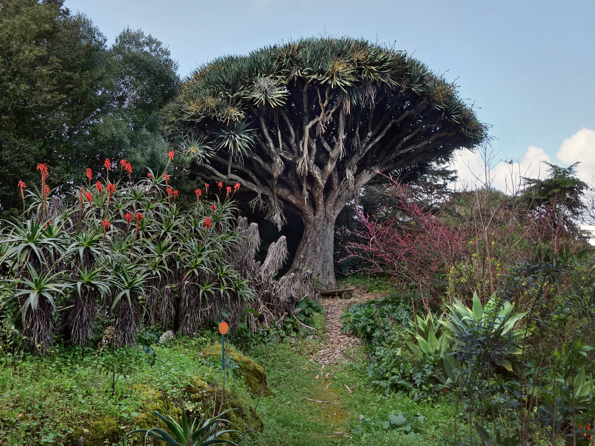 Parque Botánico do Monteiro-Mor, dragon tree (Dracaena draco)